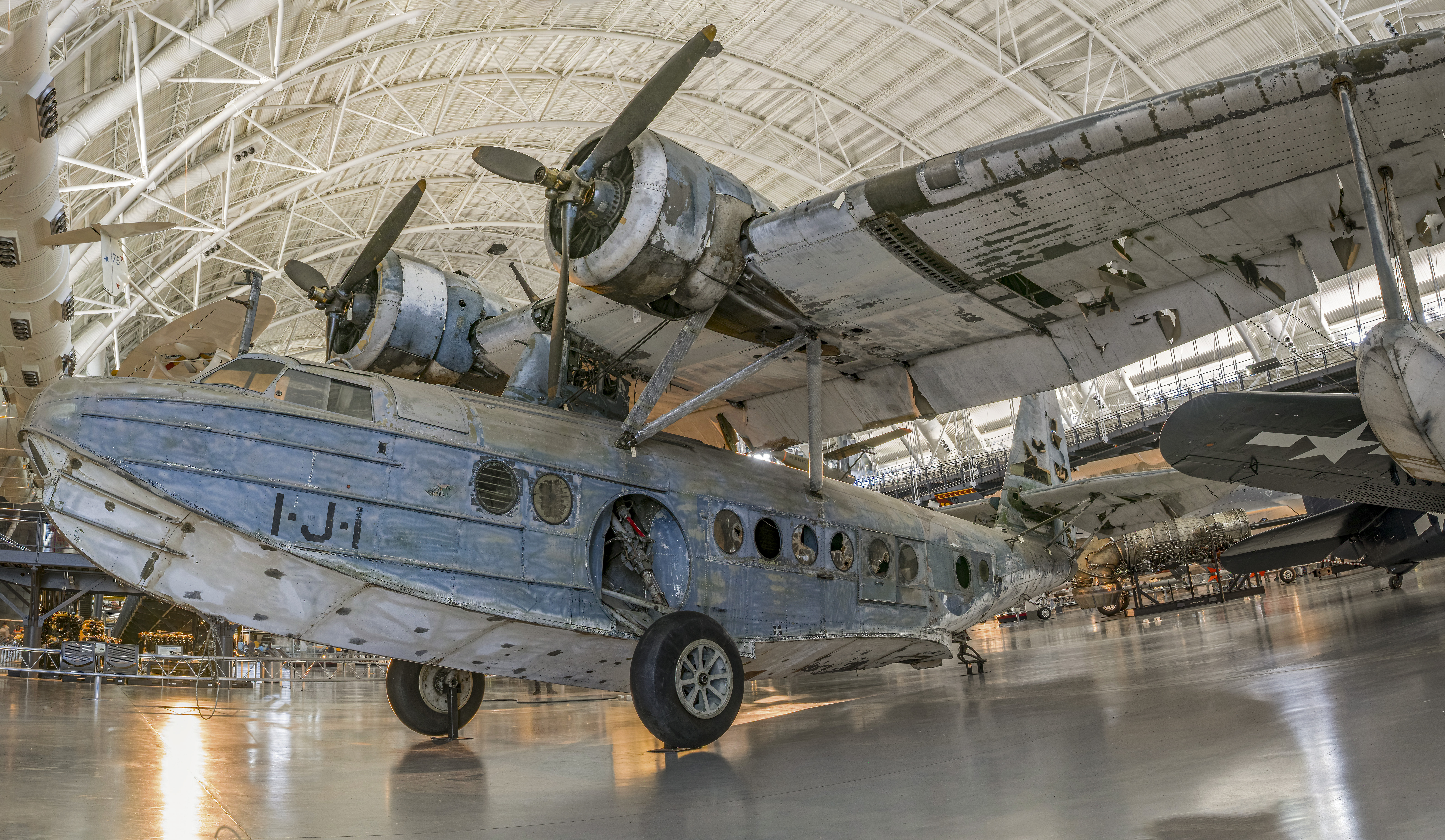 The Sikorsky JRS-1 was the military version of the S-43 amphibious passenger liner. It was used by the U.S. Army Air Corps starting in 1937. This aircraft survived the Japanese attack on Perl Harbor and was not completely restored as of August 2018.